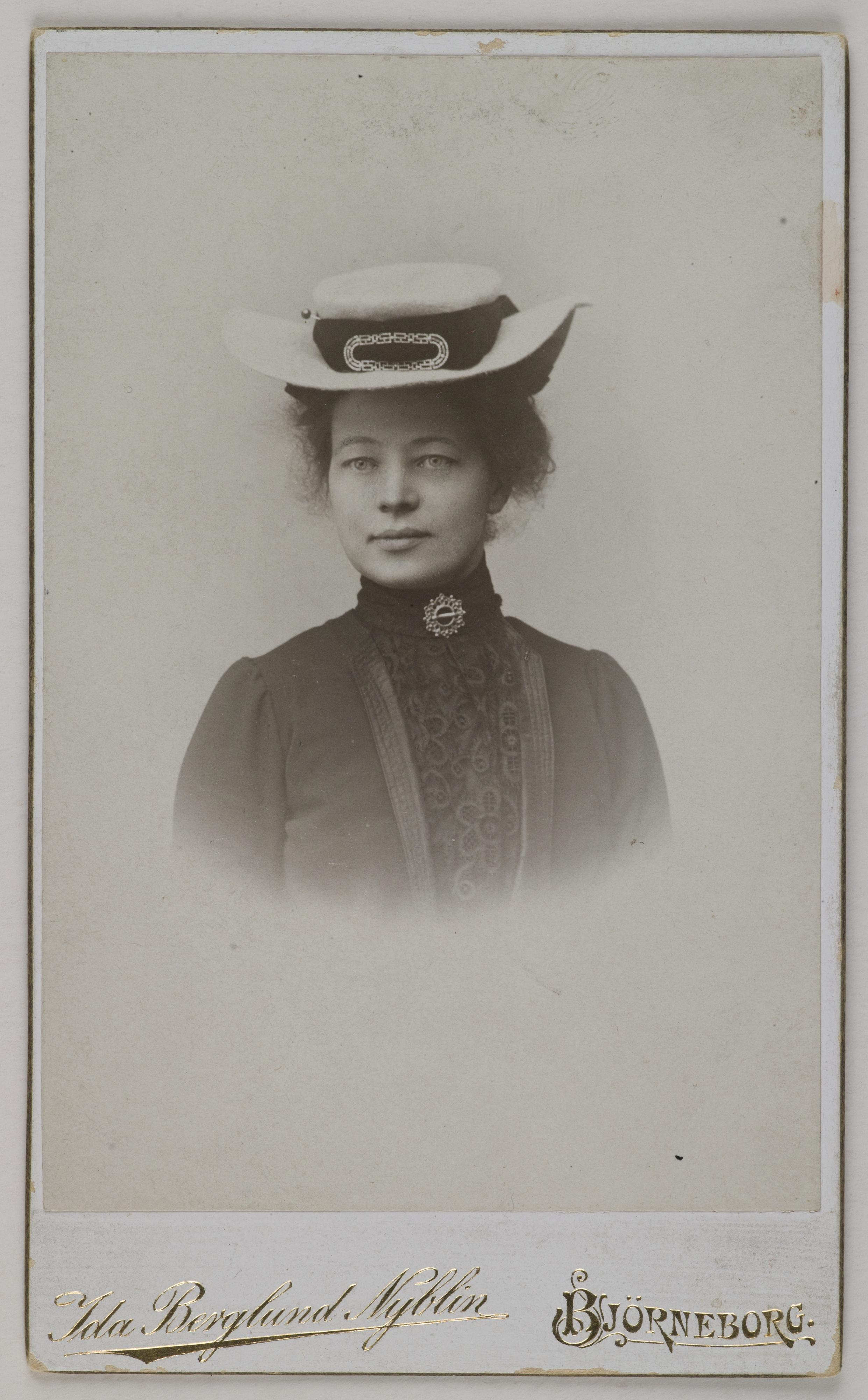 Mary Gallénin muotokuva, kuvattu Porissa noin vuonna 1903. kuvauspaikka: Pori ajoitus: noin 1903 kuvaaja: Ida Berglund Nyblin kuva-alan mitat: 90x60mm tekniikka: merkintöjä: inventointinumero: Kot. 2/29 kokoelma: Akseli Gallen-Kallelan valokuvakokoelma tutki lisää / explore further: Tiedätkö lisää tästä kuvasta? Kerro meille! Do you have information on this photo? Let us know!